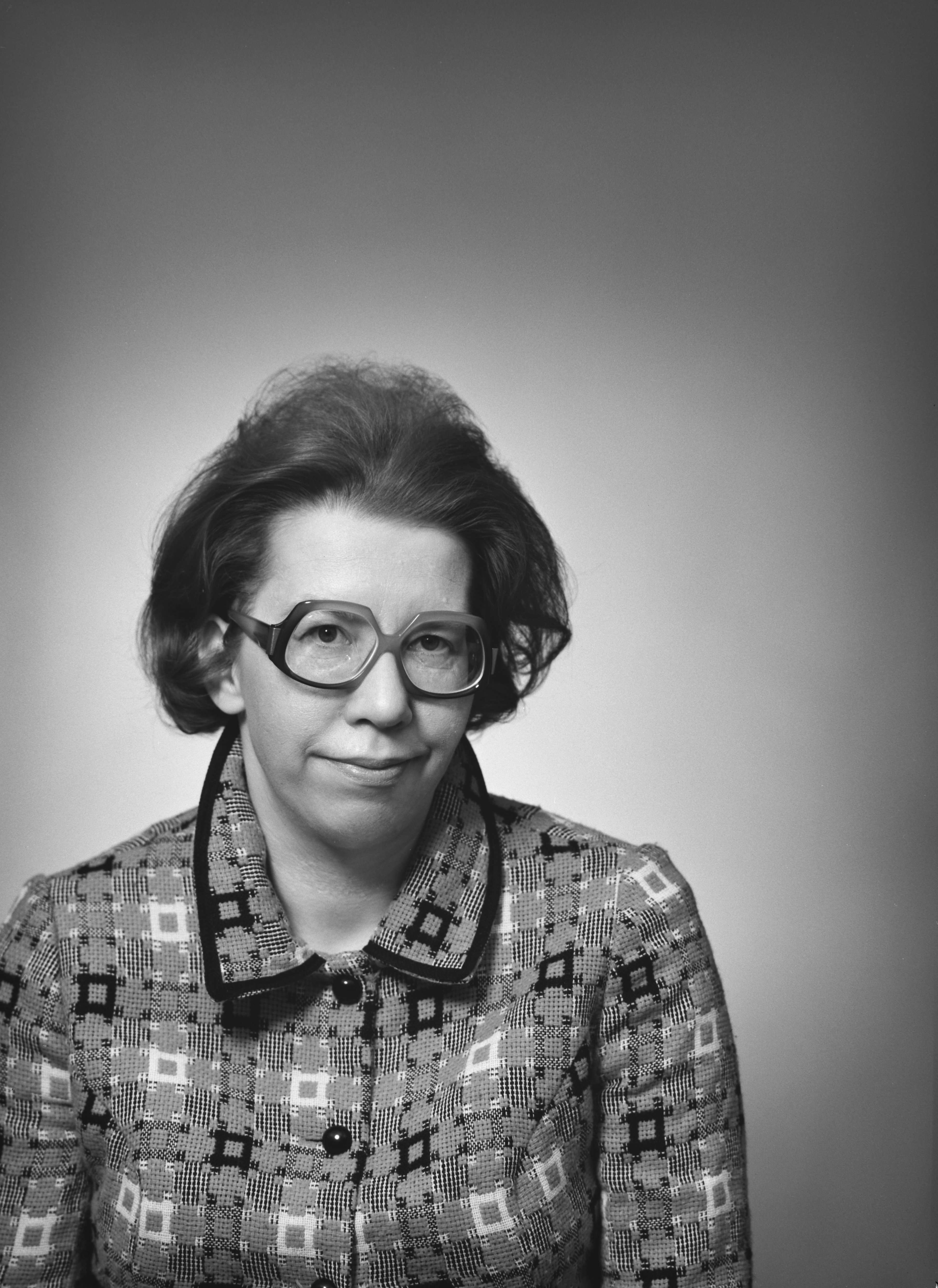 Photograph of the Finnish pharmacologist and professor Liisa Ahtee (1937–).